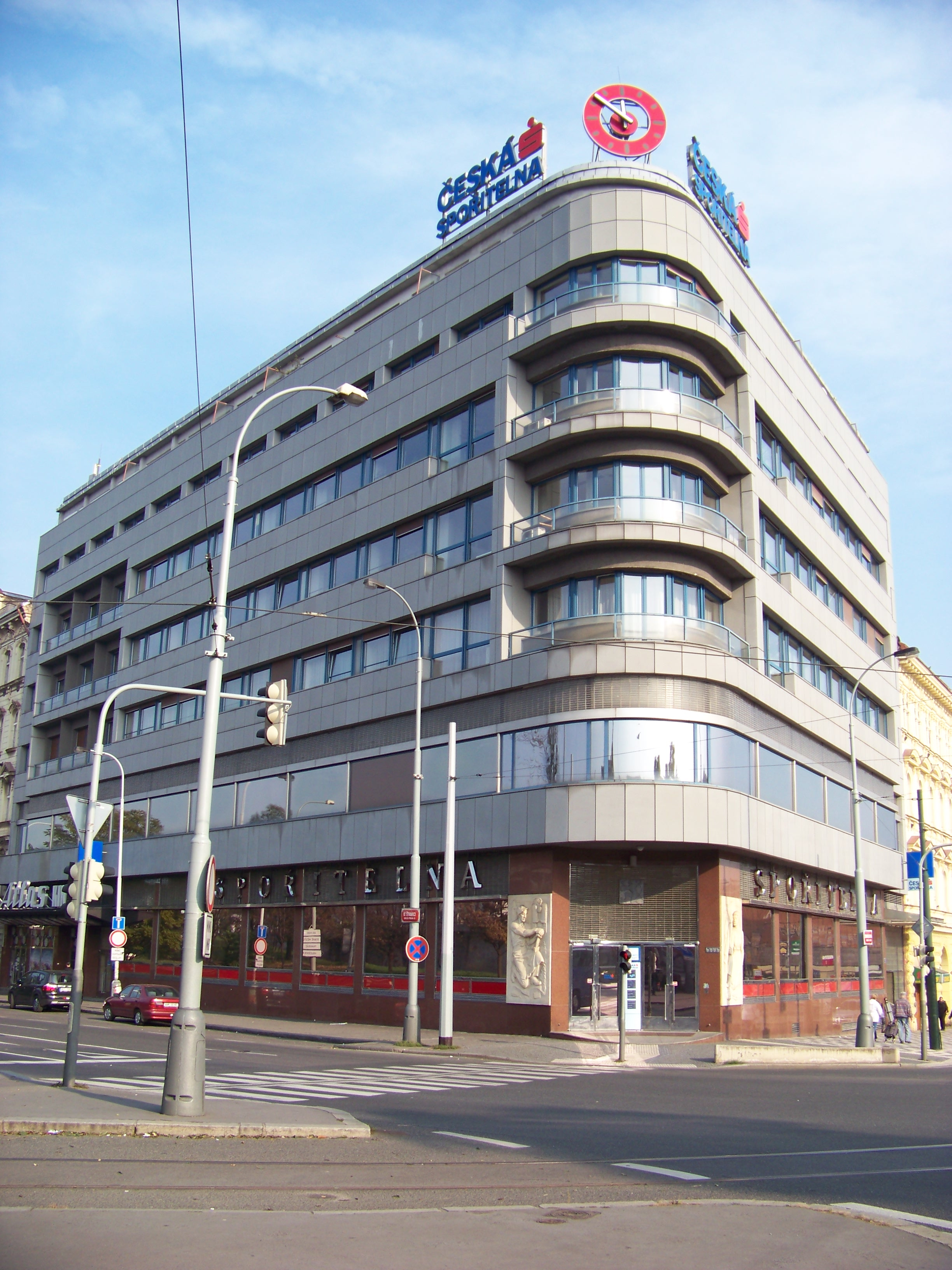 Prague-Karlín, the Czech Republic. Ke Štvanici street.